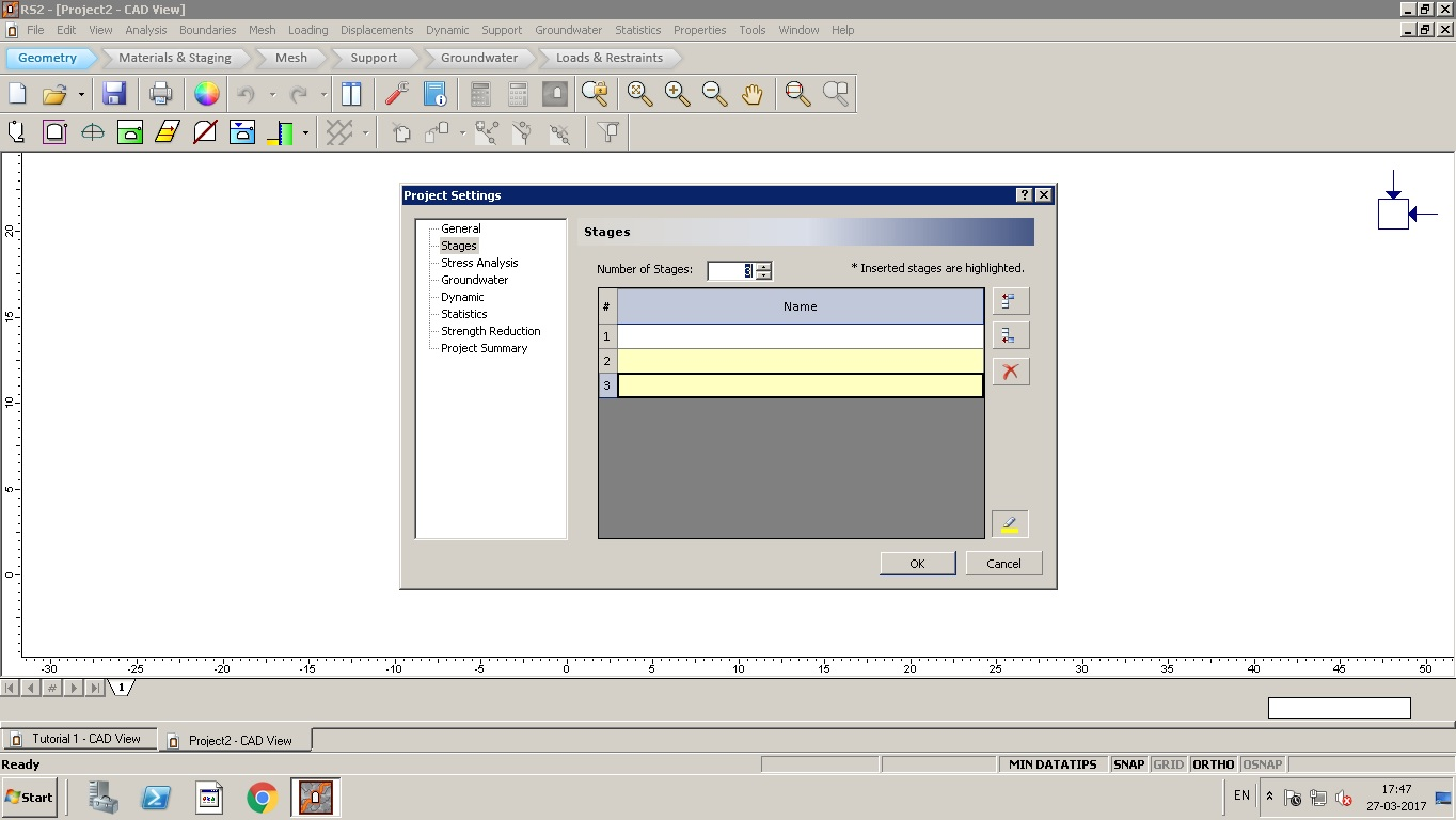 Stages in Rocscience